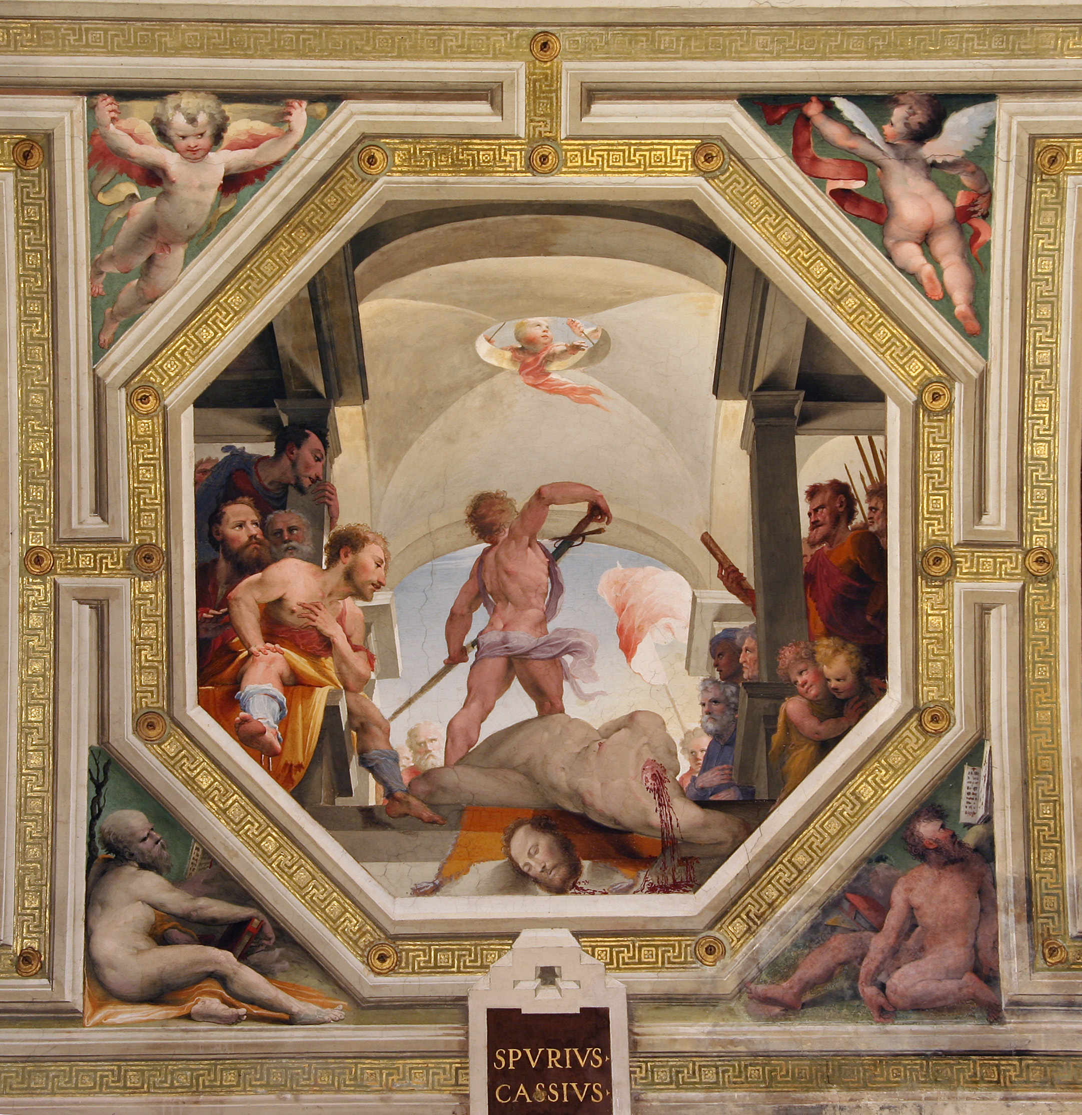 Pliny the Elder, Book 34, chapter 15: "I find that the first image cast in bronze in Rome was that of Ceres; it was paid for out of the property of Spurius Cassius, who was executed by his own father when he tried to make himself king."